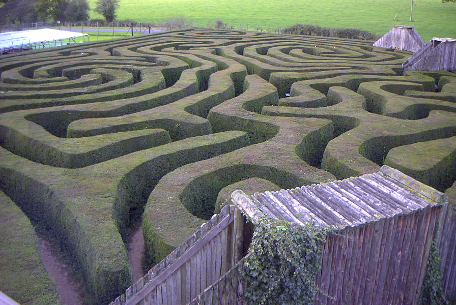 The maze of Longleat House